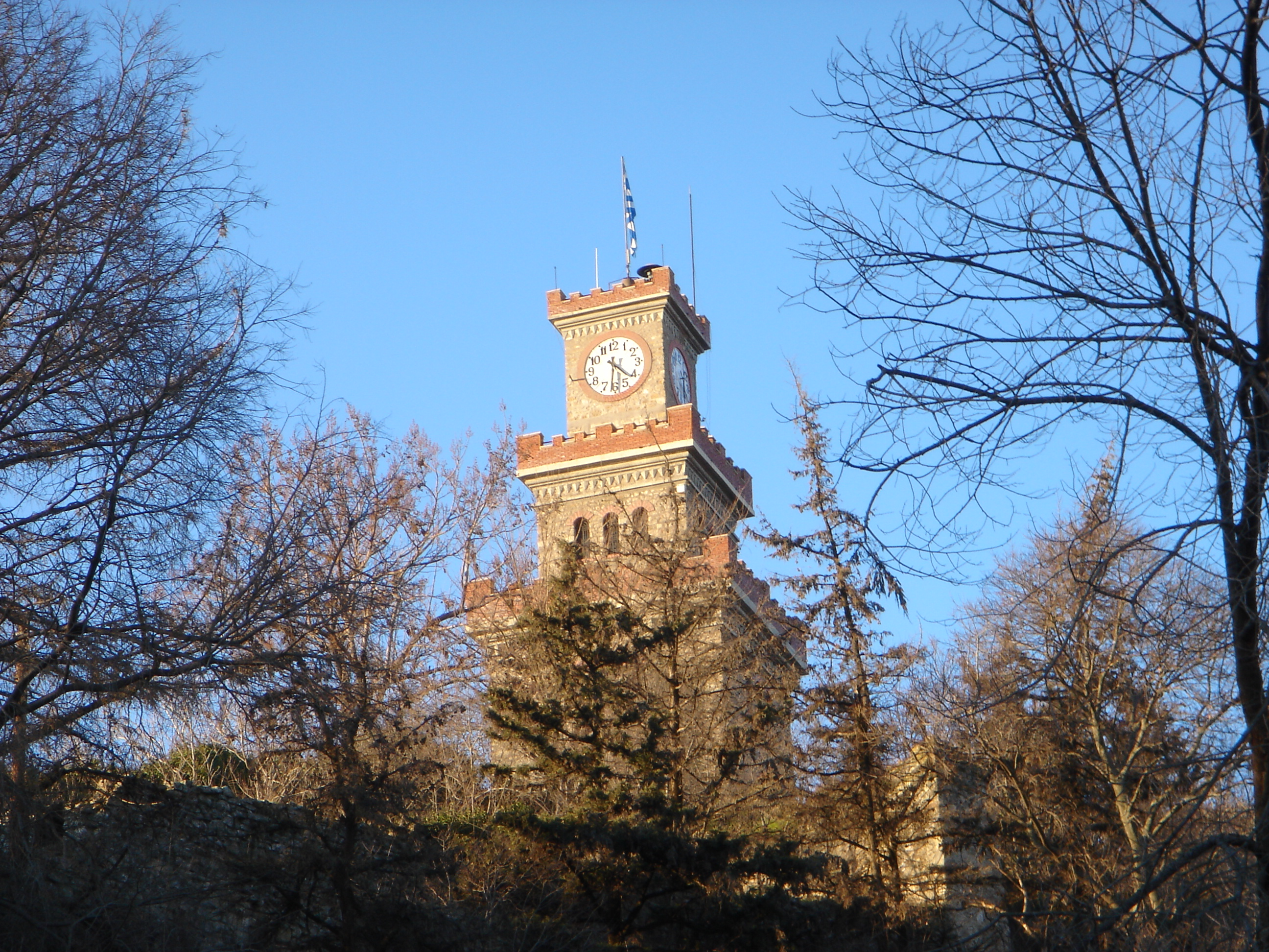 Fort of Trikala in the "Old Town" (Varousi), build in the middle ages